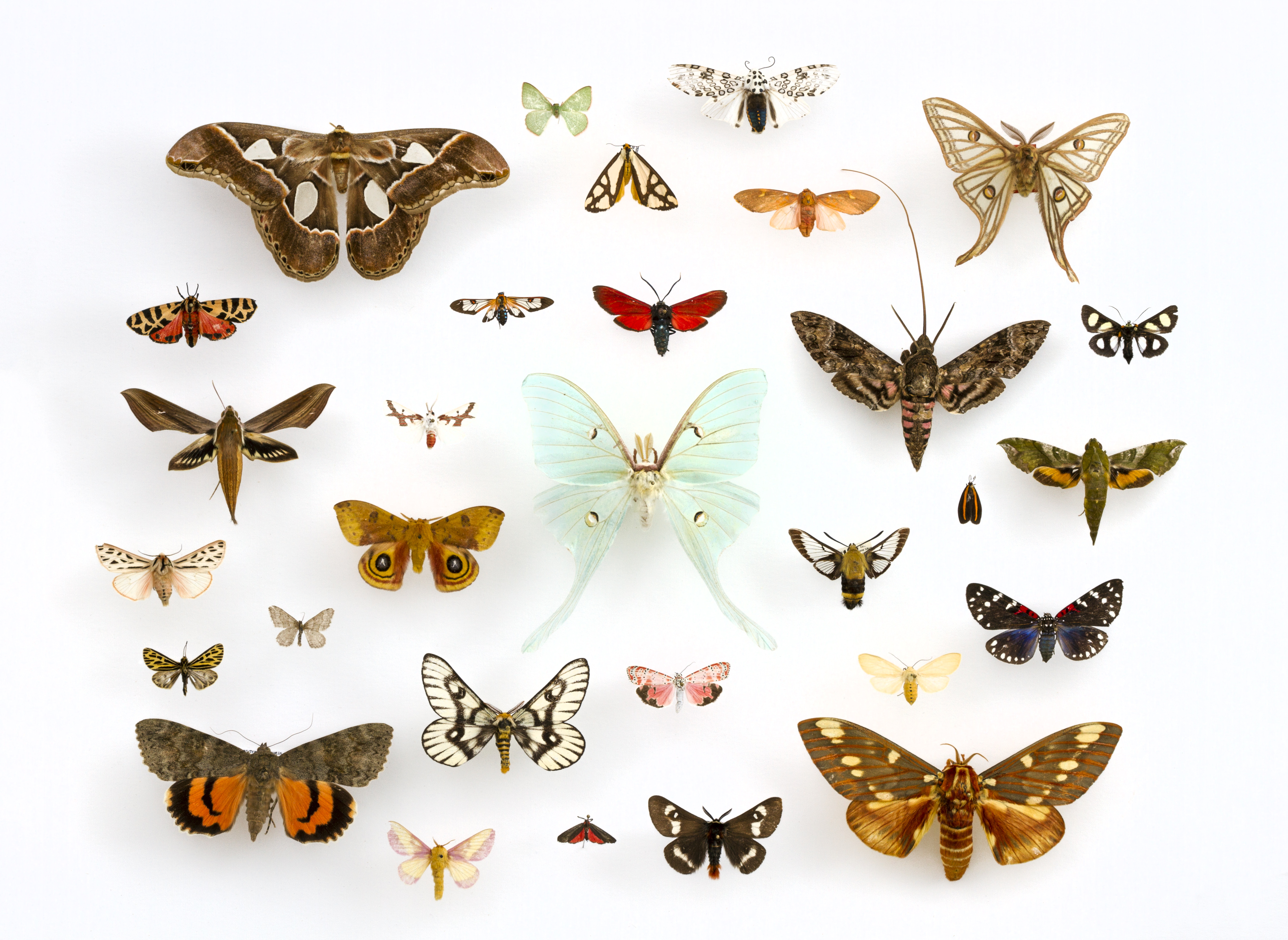 Assorted Moths (Lepidoptera) in the University of Texas Insect Collection. Public domain image; arrangement by Julia Suits; photograph by Alex Wild. Produced as part of the "Insects Unlocked" project at the University of Texas at Austin.